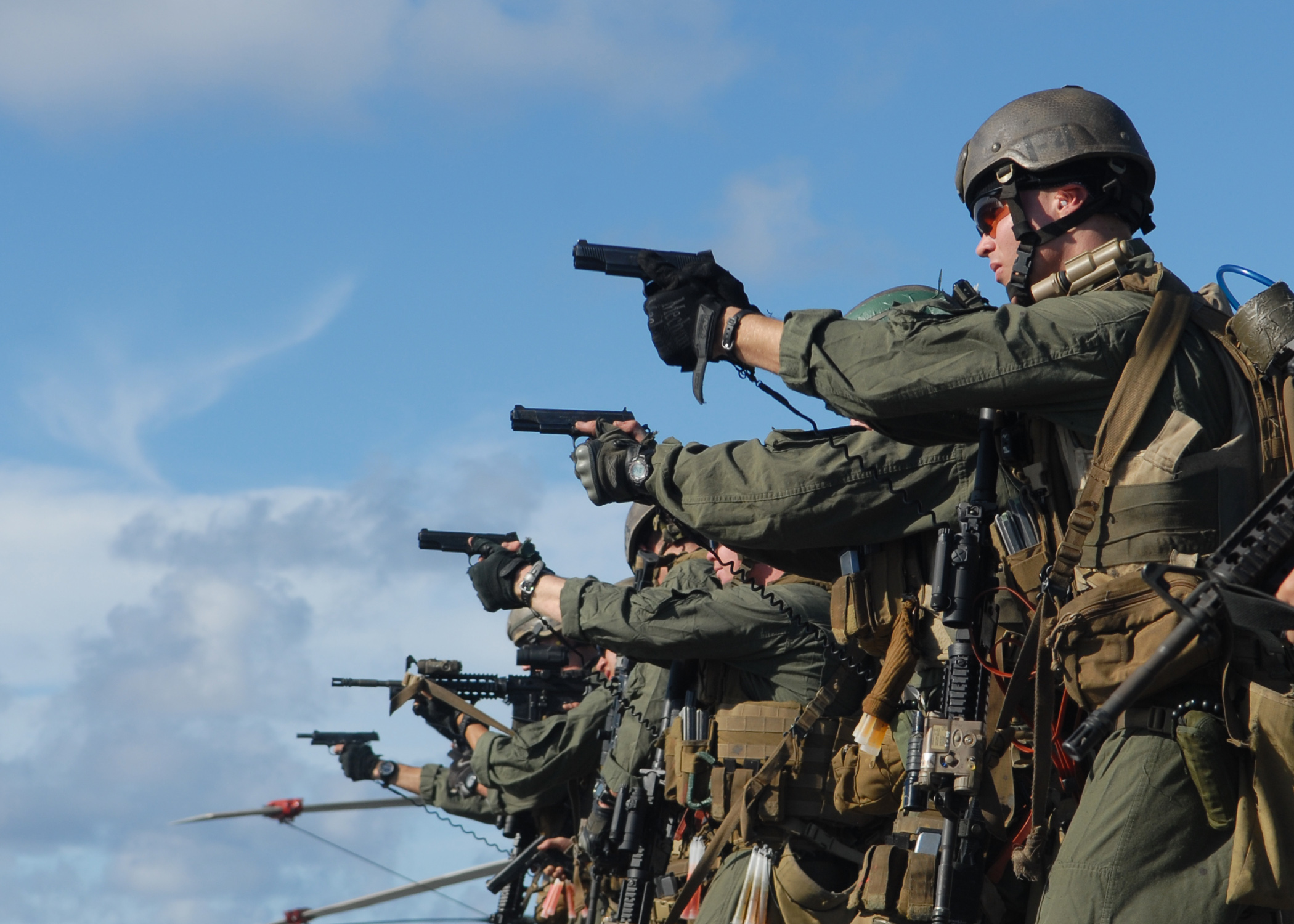 PHILIPPINE SEA (Sept. 14, 2010) Marines assigned to the 31st Marine Expeditionary Unit (31st MEU) participate in a live-fire exercise aboard the amphibious assault ship USS Essex (LHD 2). Essex is part of the forward-deployed Essex Amphibious Ready Group and is participating in Valiant Shield 2010, an integrated joint training exercise designed to enhance interoperability between U.S. forces. (U.S. Navy photo by Mass Communication Specialist 3rd Class Andrew Ryan Smith/Released)